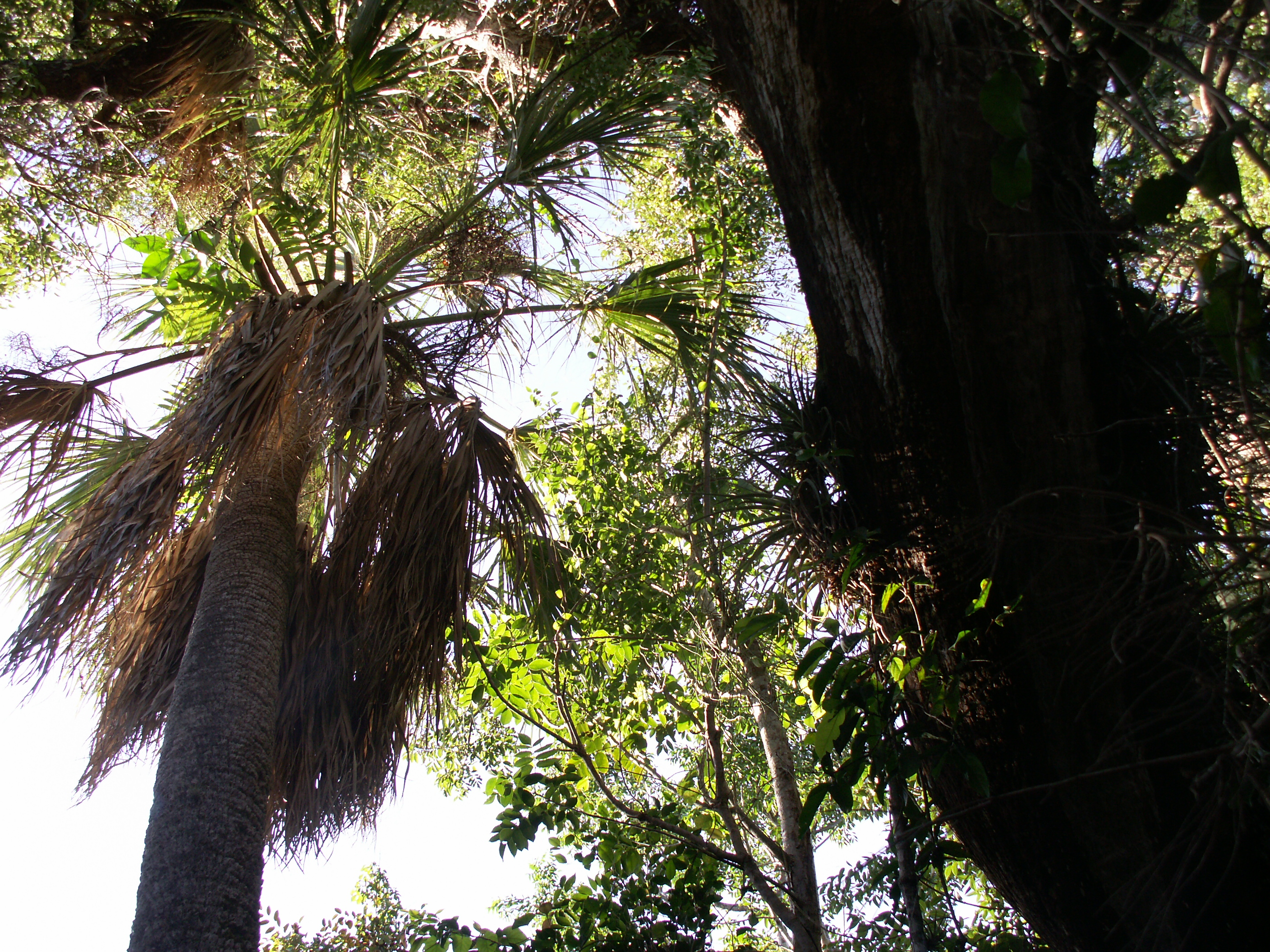 Standing inside a tropical hardwood hammock looking up, Everglades National Park, Mahogany Hammock